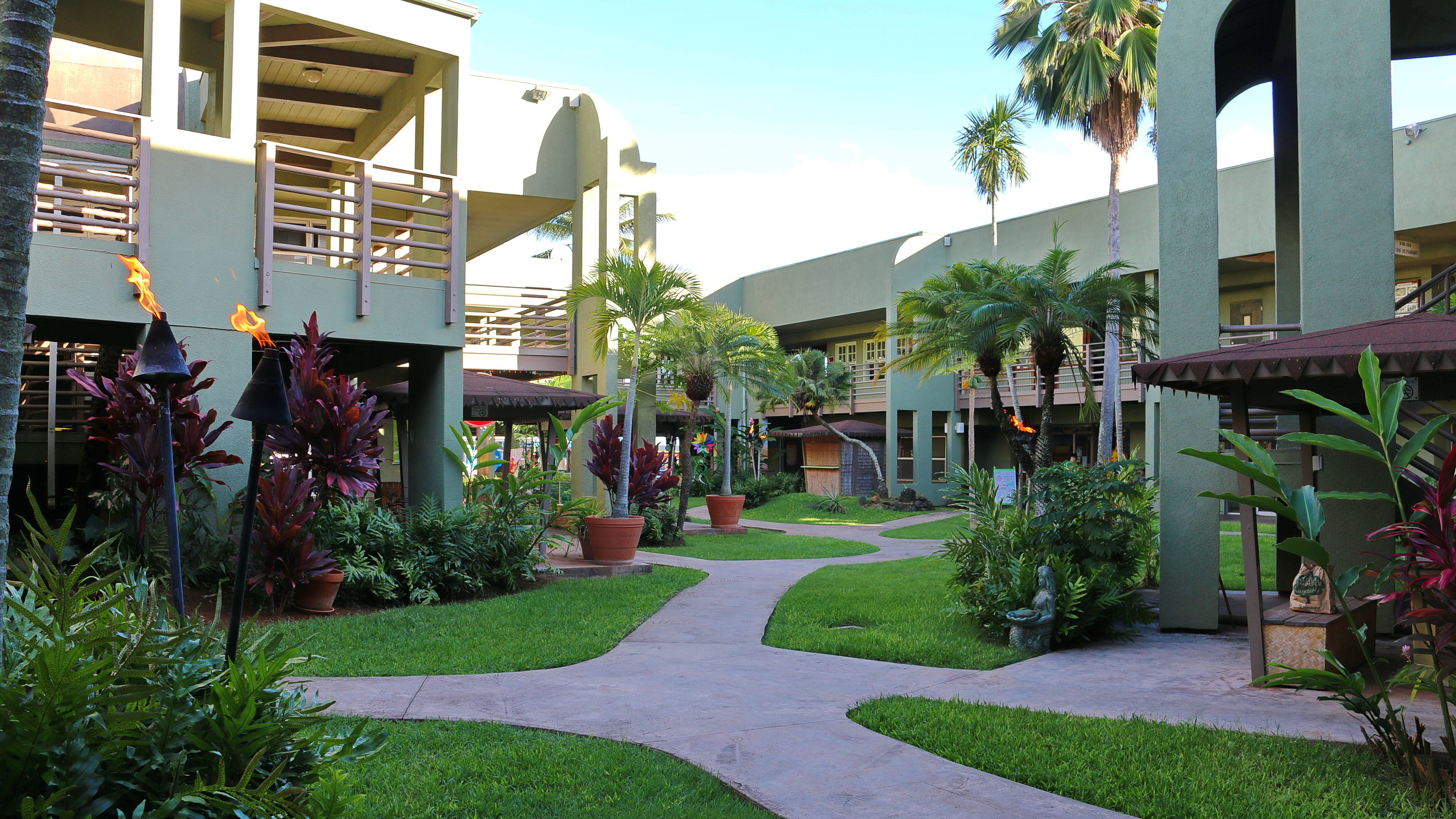 Harbor Mall, Rice St, Nawiliwili, Lihue